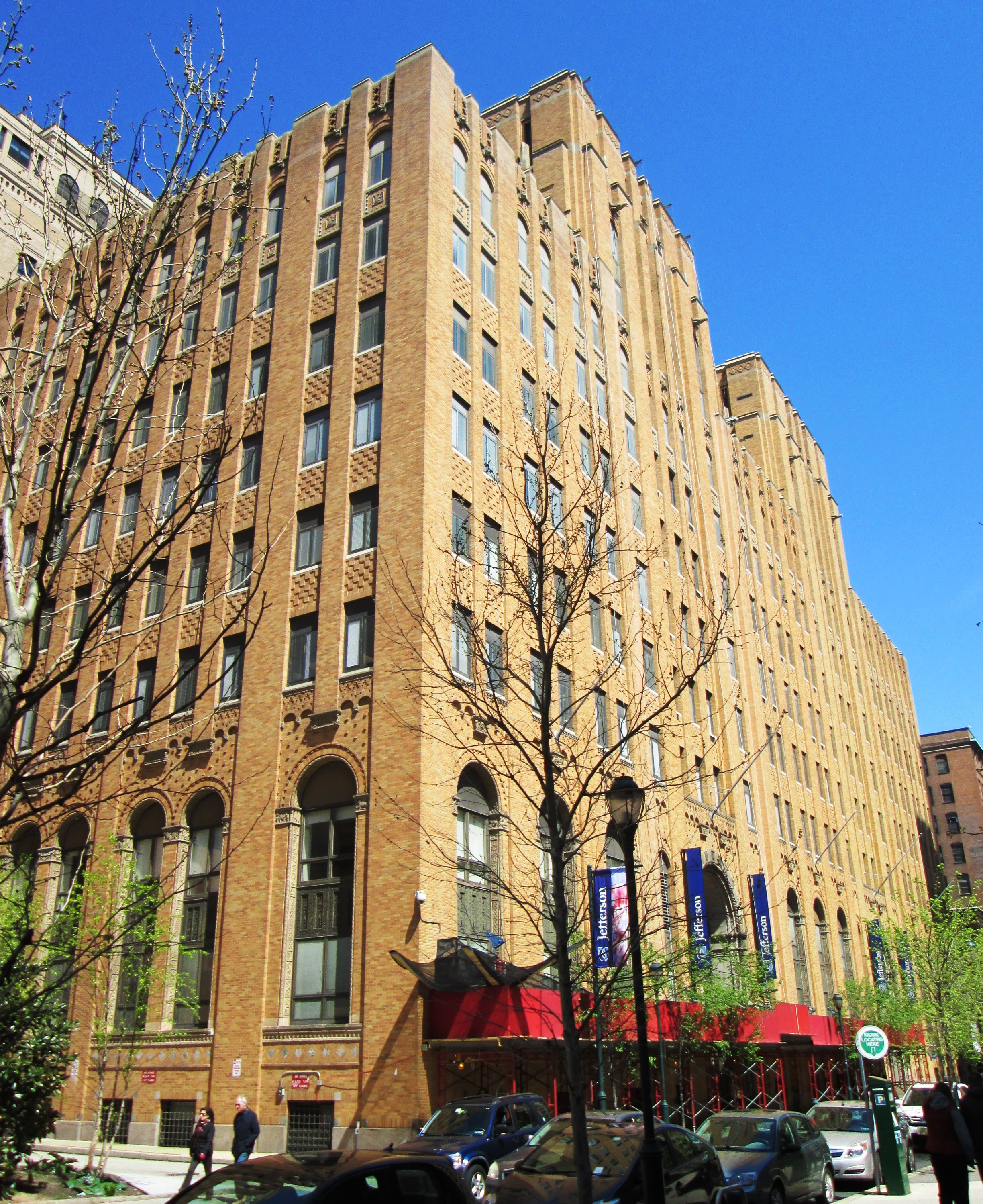 The College (near) and Curtis (far) Buildings of Thomas Jefferson University at 1025 Walnut Street between S. 10 and S. 11 Streets in Center City, Philadelphia was built in 1928-29 and was designed by Horace Trumbauer in the Romanesque Revial style. (Sources: Emporis and "A Modest Proposal: Some Rejected and Altered Architectural Designs for TJU Campus Buildings" on the TJU website)